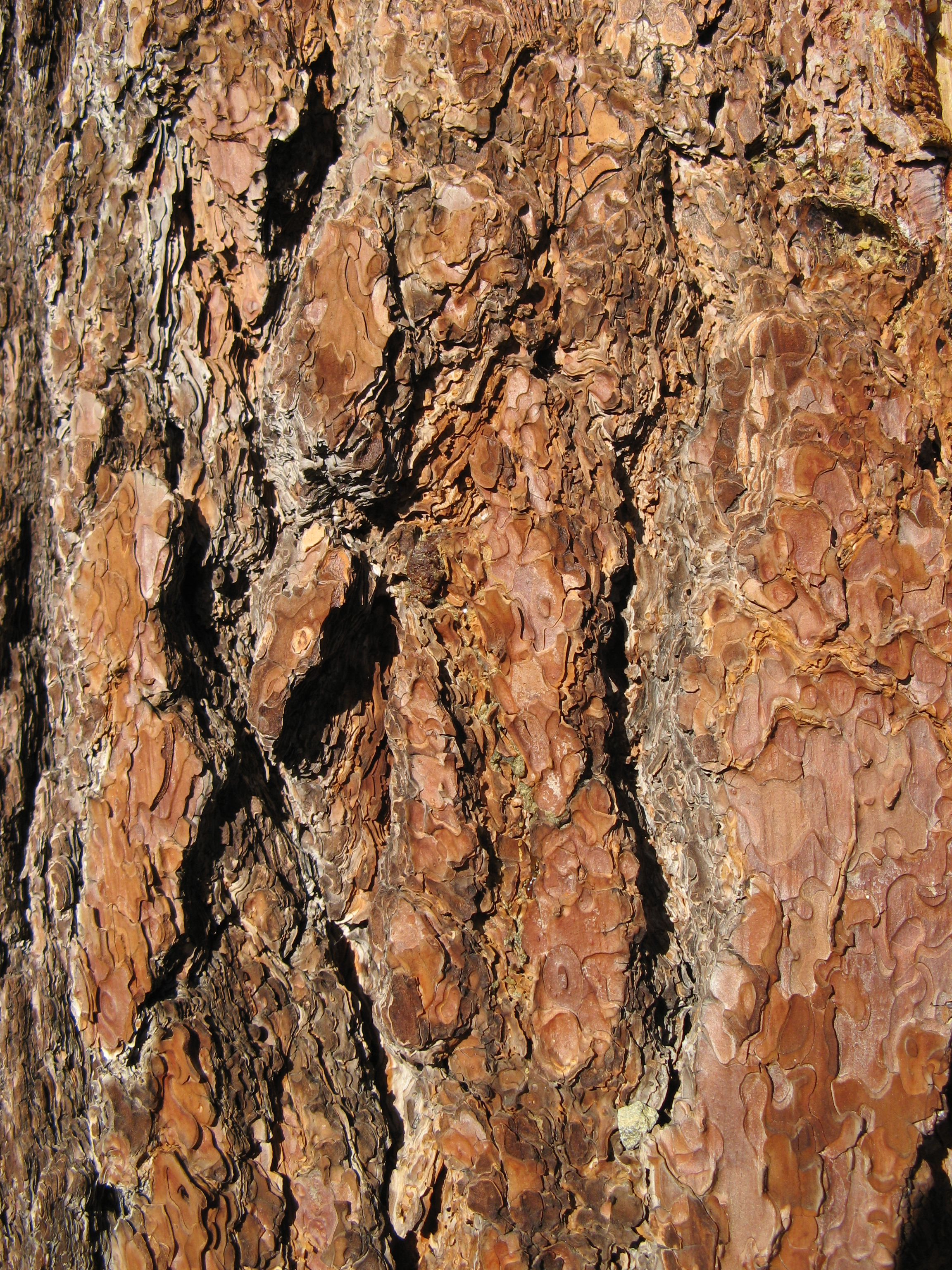 The bark of a sugar pine in Mount San Antonio at around 7,900 ft.